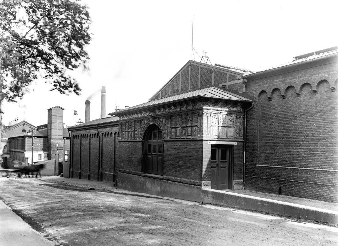 The former Carlsberg Museum on Ny Carlsberg Vej in Copenhagen, Denmark